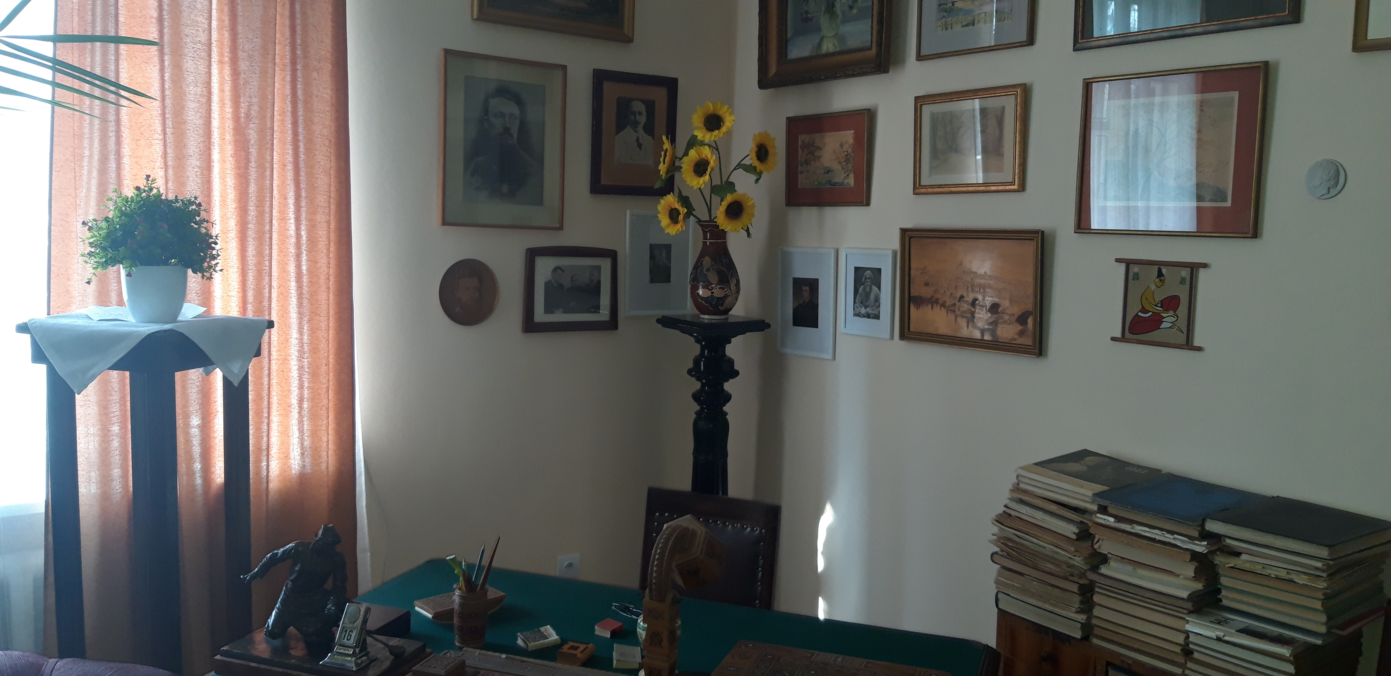 Personal cabinet of Pavlo Tychyna in his residence, now the museum